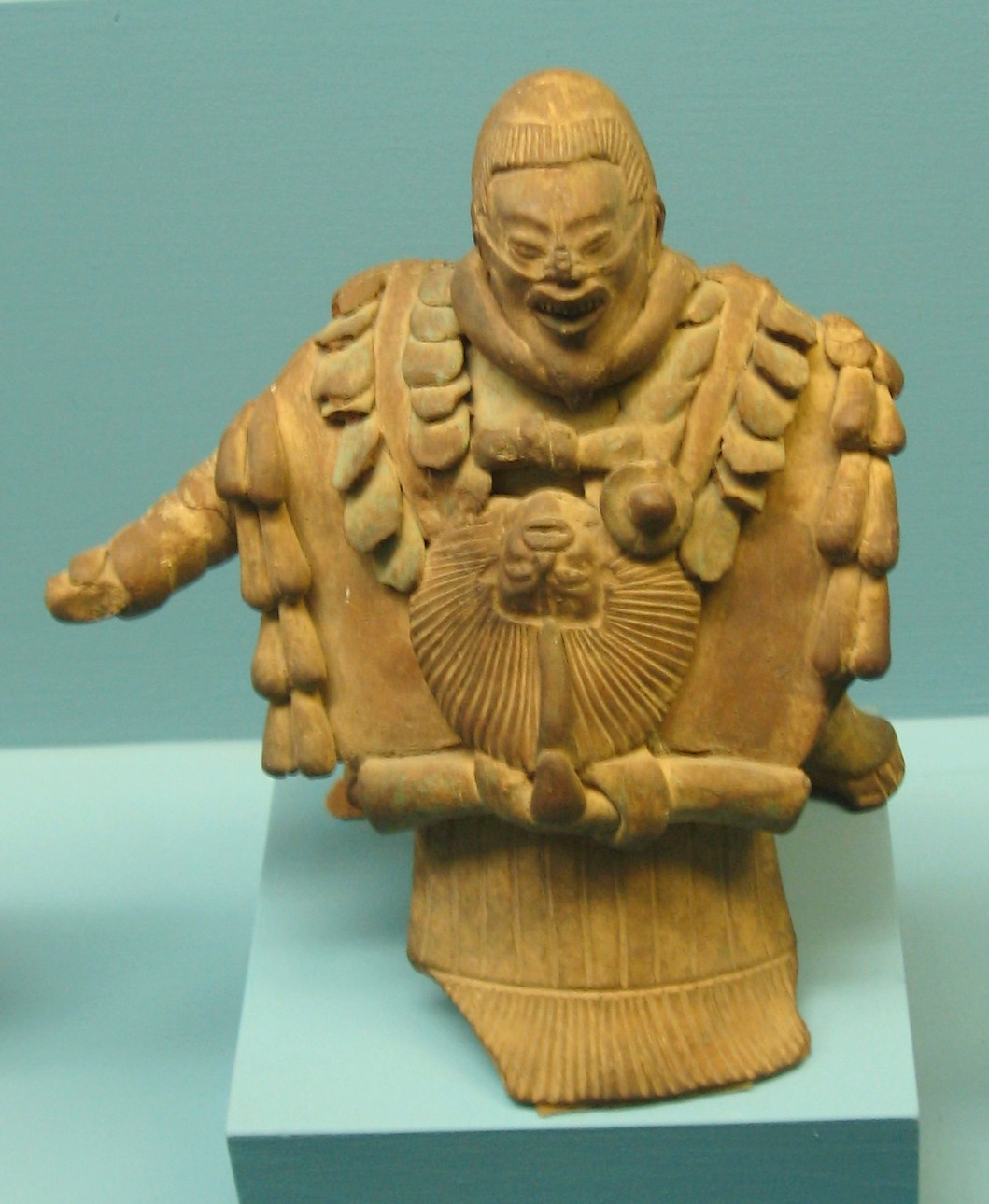 A Maya Jaina-style figurine. Height: 19 cm; width: 16 cm; depth: 12 cm. Photo by Madman.